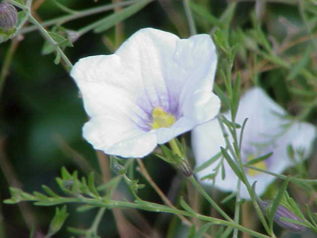 Species: Nierembergia scoparia (as Nierenbergia frutenscens) Family: Solanaceae Image No. 1